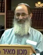 Rabbi Uri Sherki picture, taken by Liran Geller, uploaded with his permission